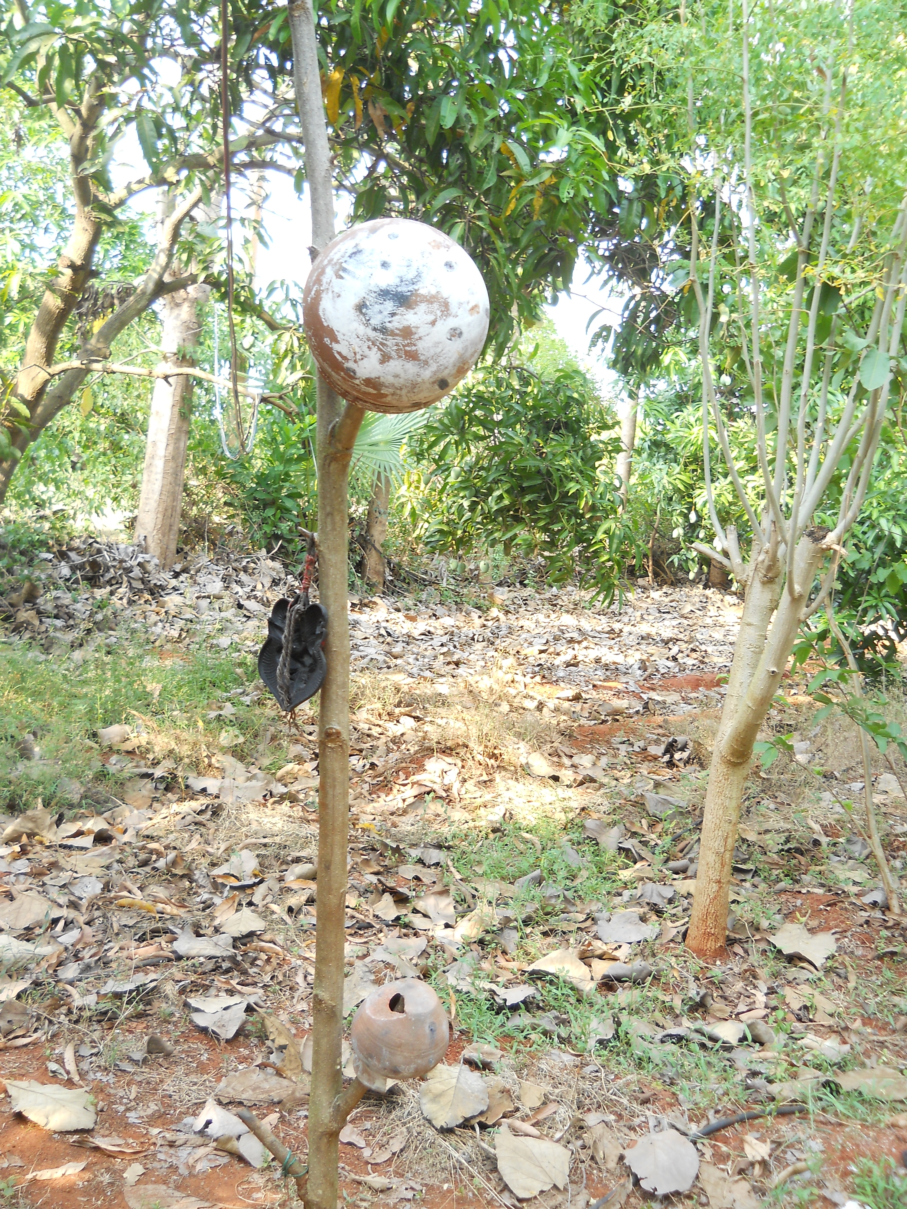 Scarecrow with Pot at Vinjamur, Nellore (dt), A.P. India.